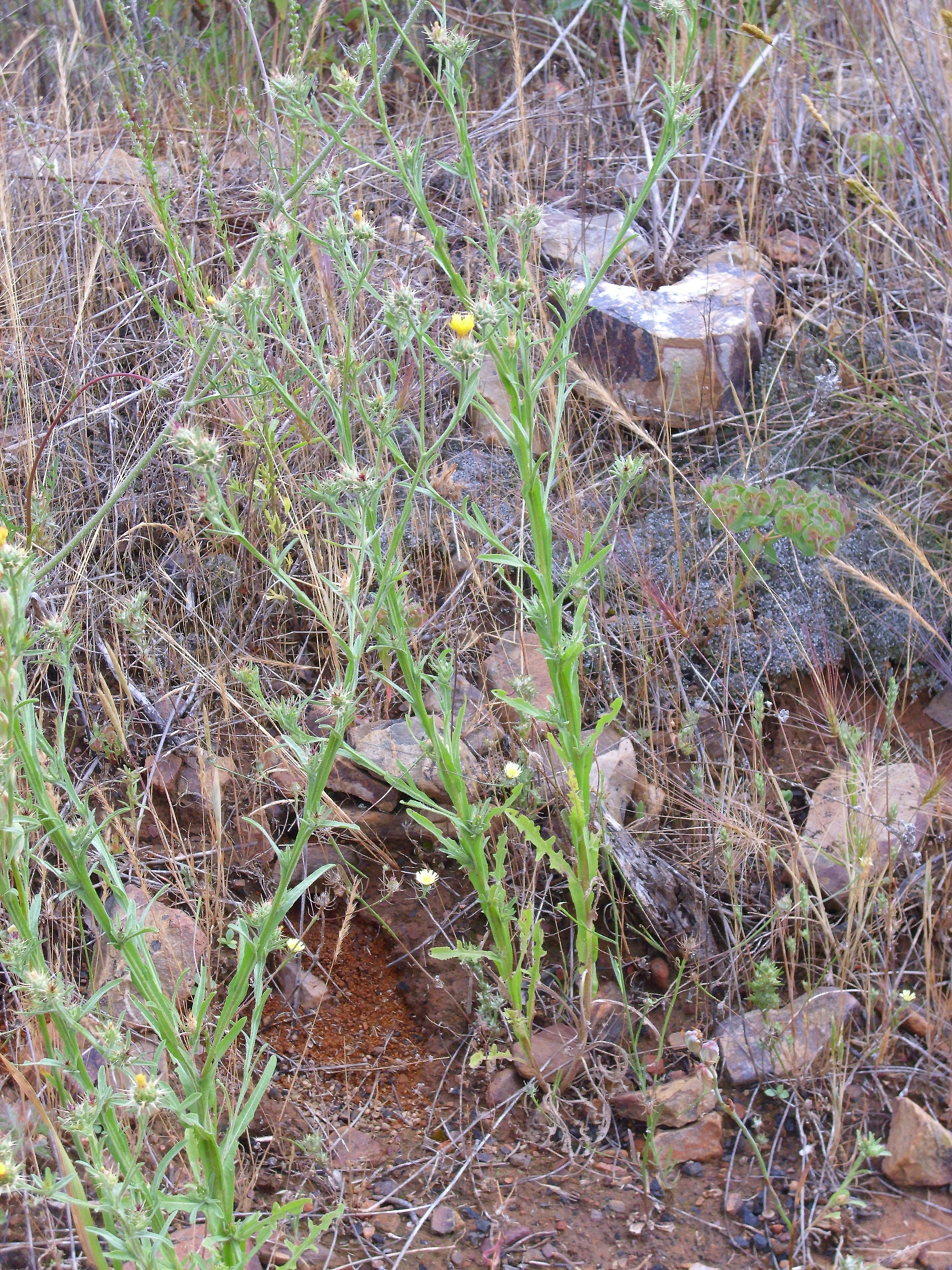 Centaurea melitensis habit, Dehesa Boyal de Puertollano, Spain